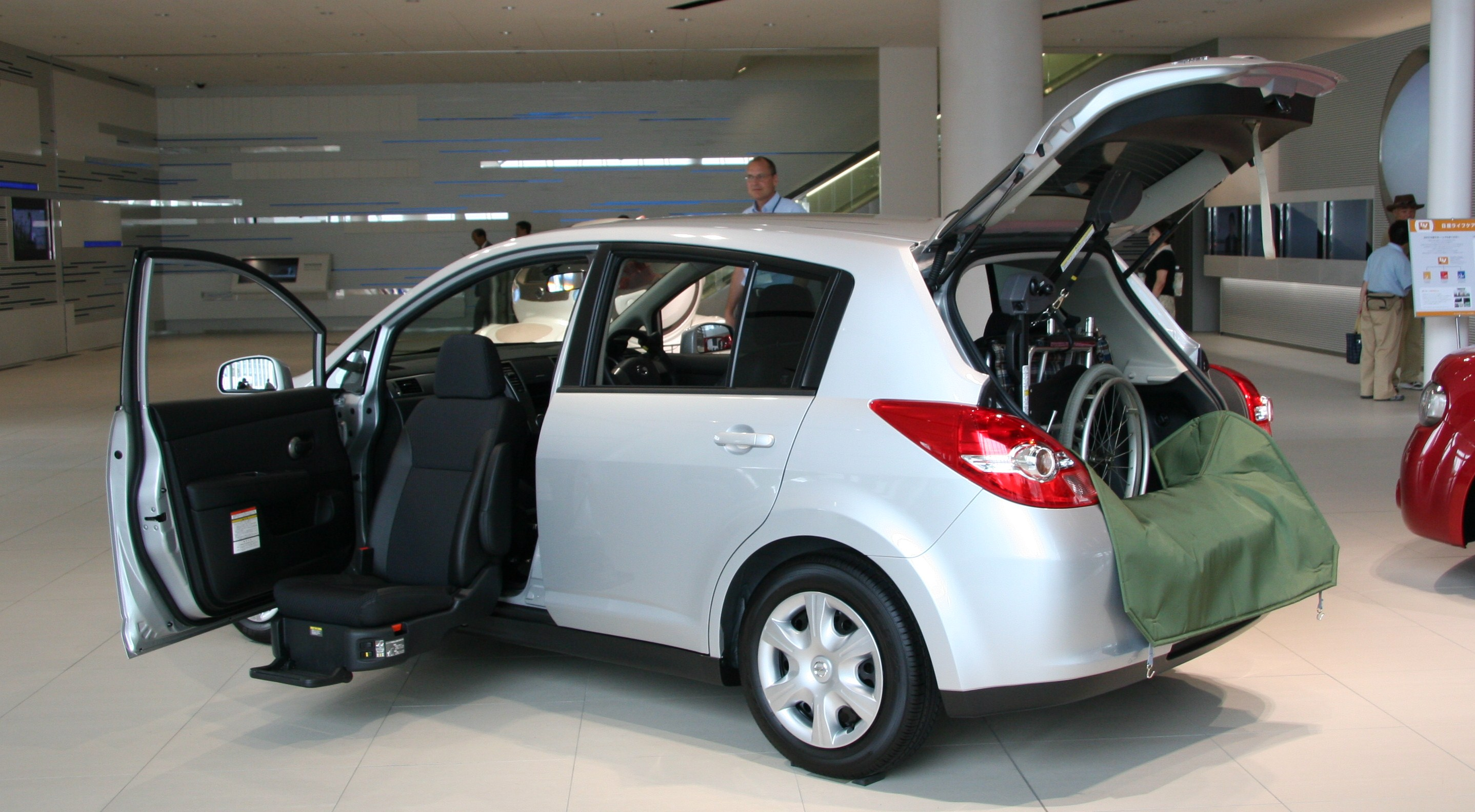 NISSAN TIIDA